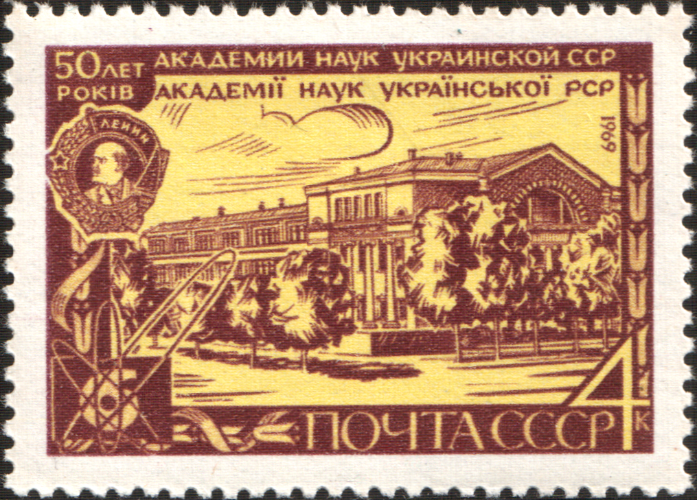 USSR stampː Scientific Centre. Seriesː 50th Anniversary of Academy of Sciences of the UkrSSR, Kiev